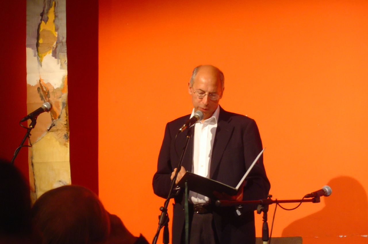 French poet Jean-Pierre Lemaire read his texts in French at 2007 Czech-French Poetry Festival in Prague.